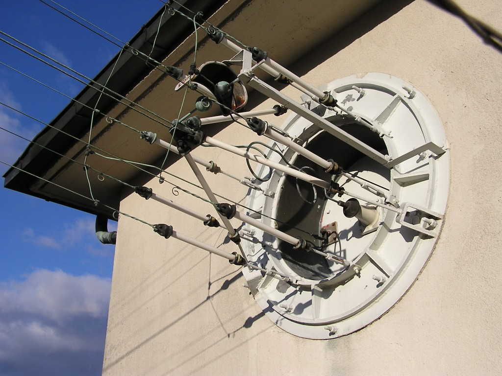 Transmission line emerging from the transmitter building of Sendeanlage Bisamberg, a medium wave AM broadcasting station in Bisamberg near Vienna, Austria. It feeds radio power to the north antenna mast. This type of transmission line is called a "cage line". It consists of a small circular bundle of parallel wires carrying the RF current, surrounded by a larger circle of grounded wires, which function as a "shield" to prevent the power from radiating off the inner wires as radio waves. It functions similarly to a large version of a coaxial cable.